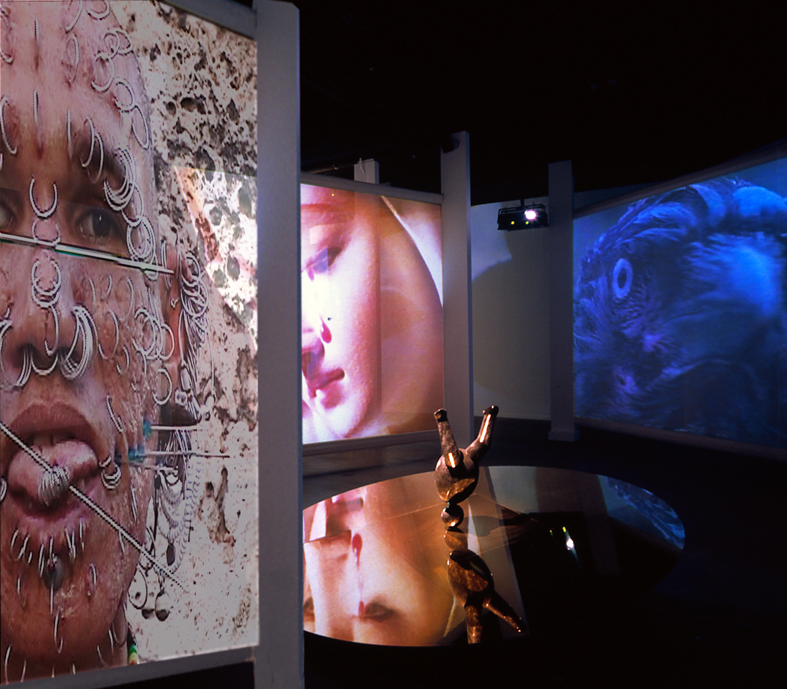 photo by Sandermander